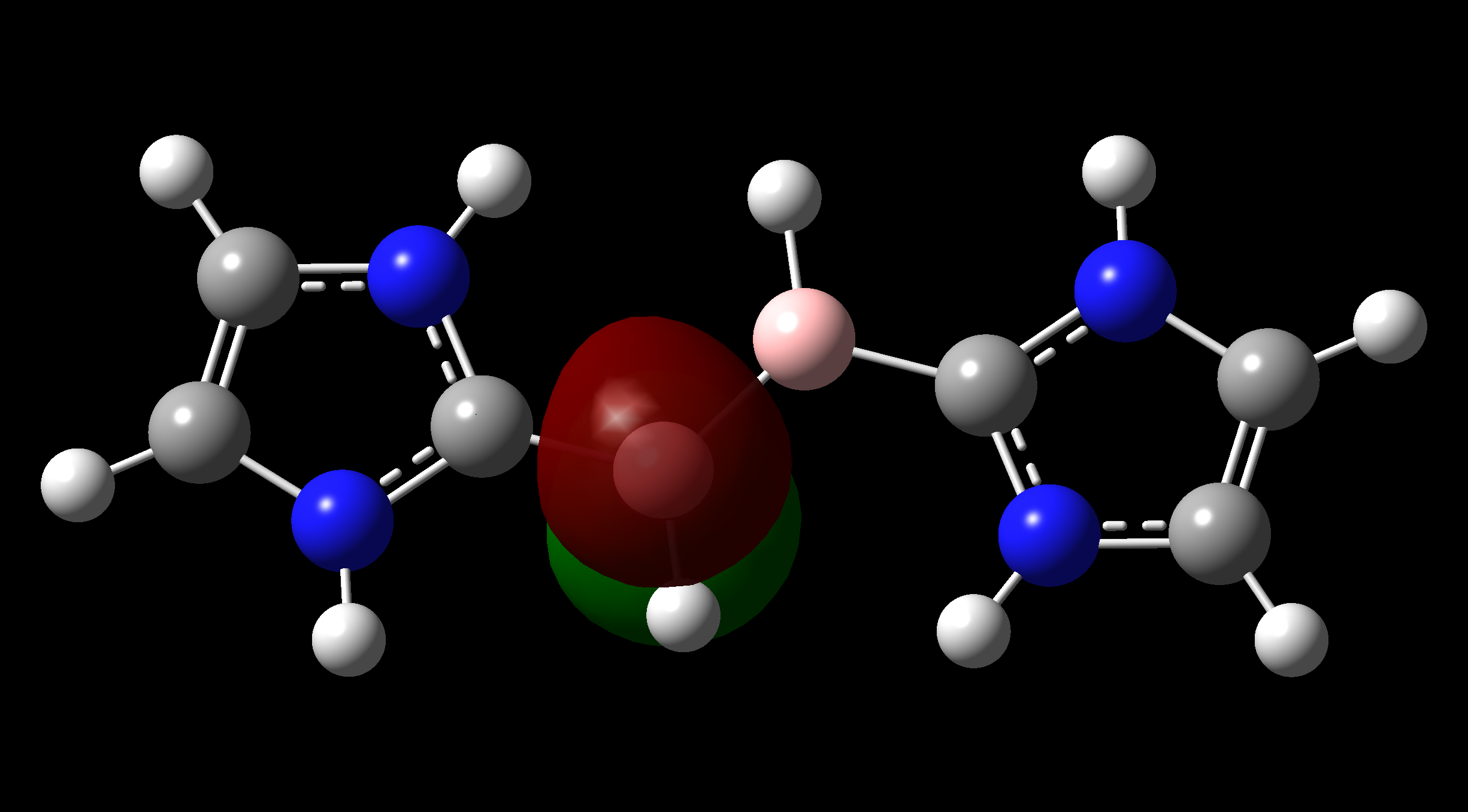 B lp NBO